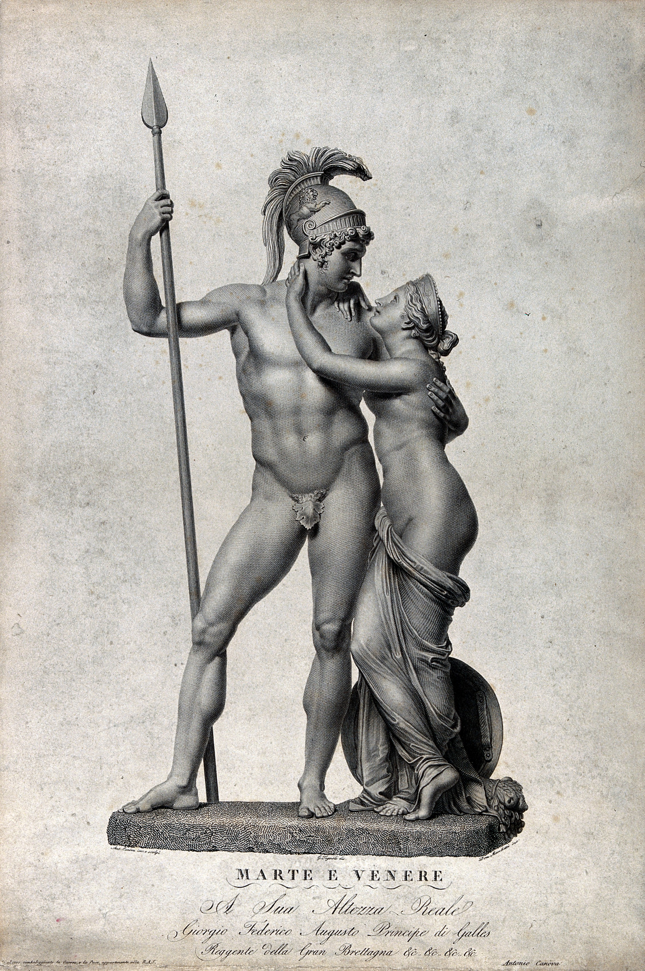 Mars [Ares] and Venus [Aphrodite]. Engraving by D. Marchetti after G. Tognoli after A. Canova. Iconographic Collections